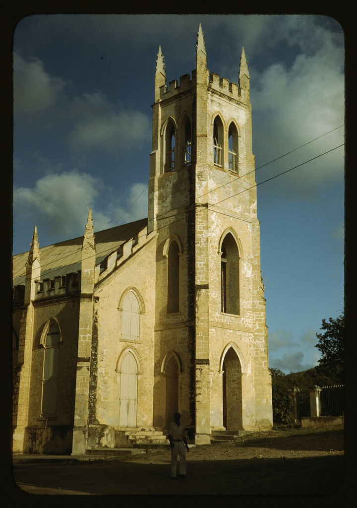 Summary: Photo shows St. John's Anglican Church, 27 King St. (Source: Library staff, 2009)